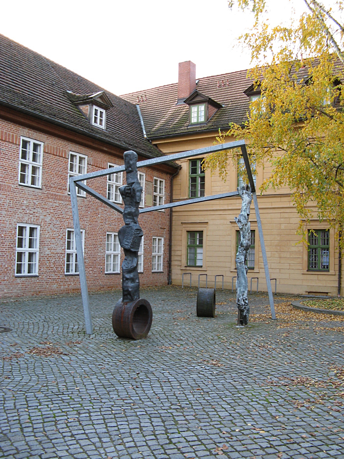 Sculpture in front of the Schleswig-Holstein-House in Schwerin, Germany